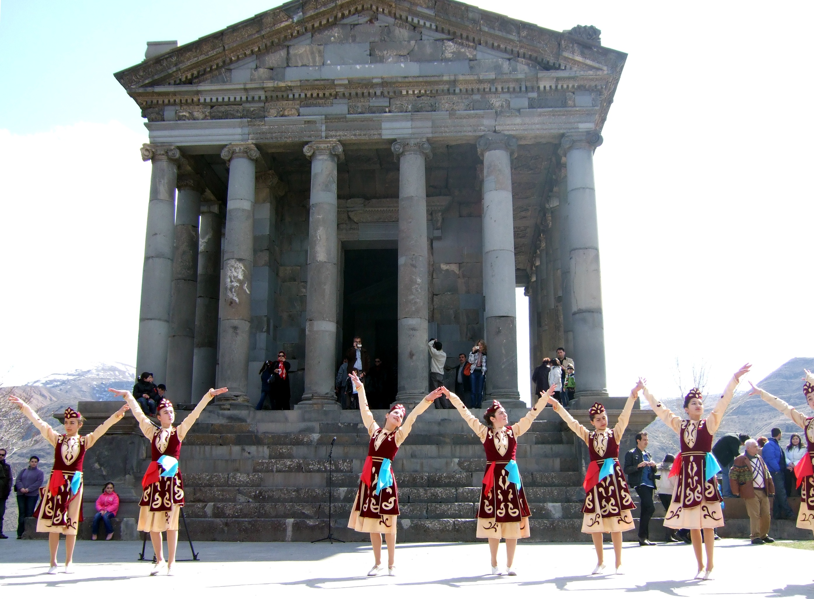 Armenian folk dance in front of Garni Temple in celebration of Armenian neo-pagan new year